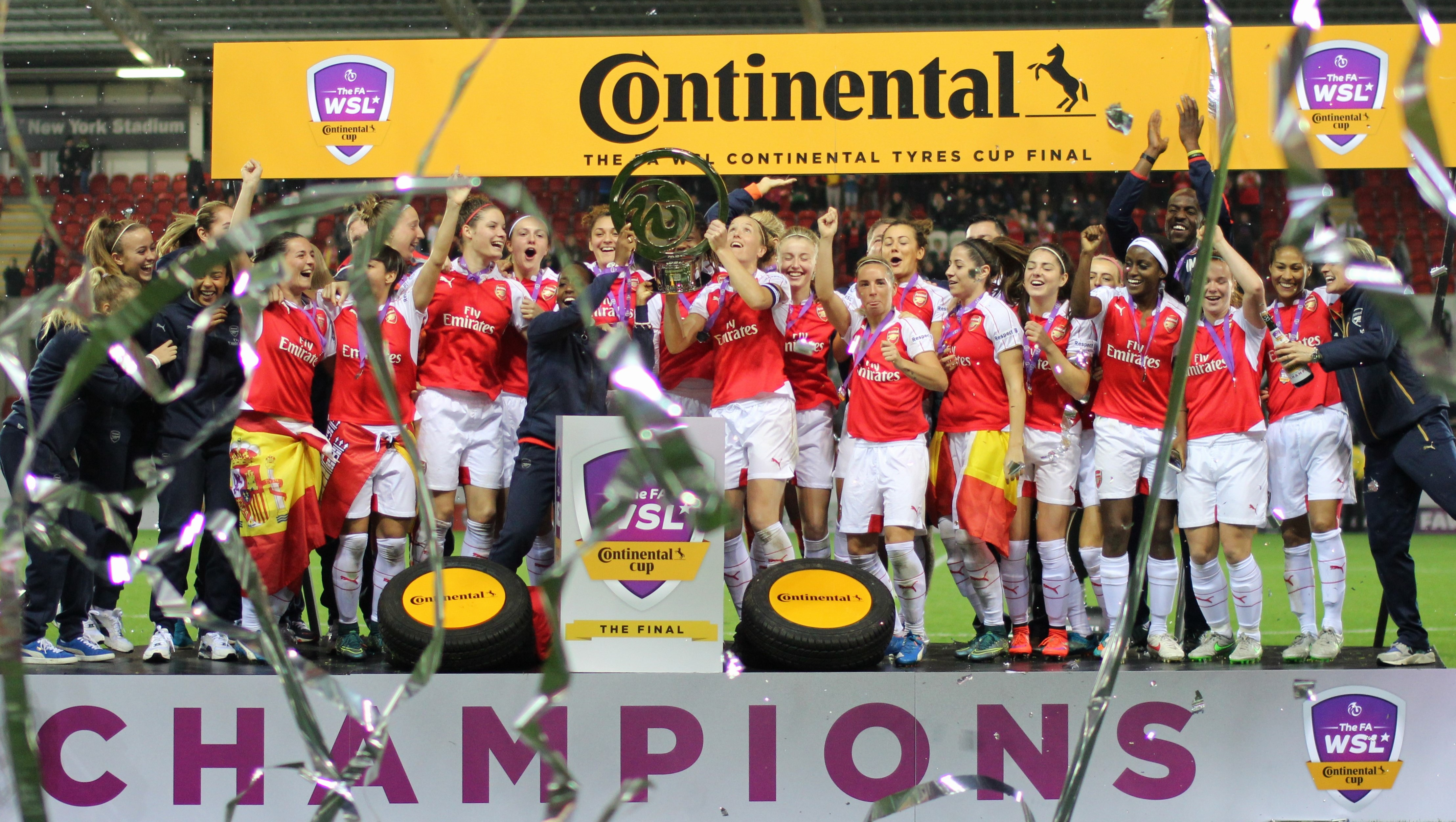 Arsenal Ladies players celebrate winning the Continental Cup Final against Notts County.